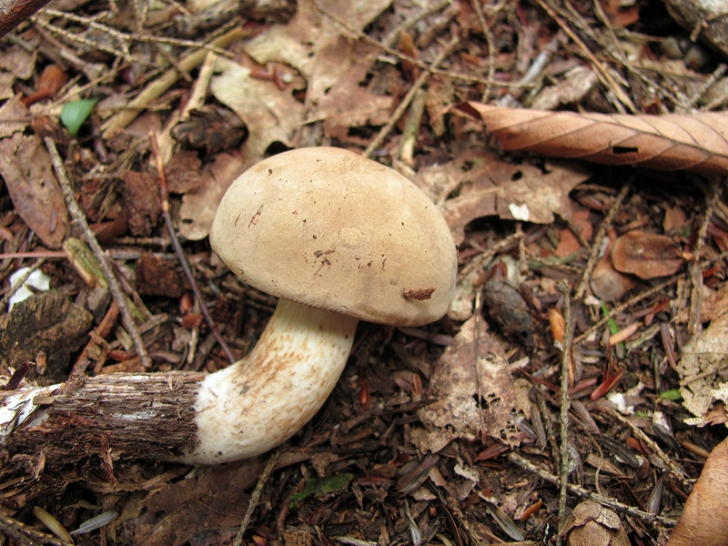 Boletus pallidus Frost Location: Oneida Co., New York, USA For more information about this, see the observation page at Mushroom Observer.